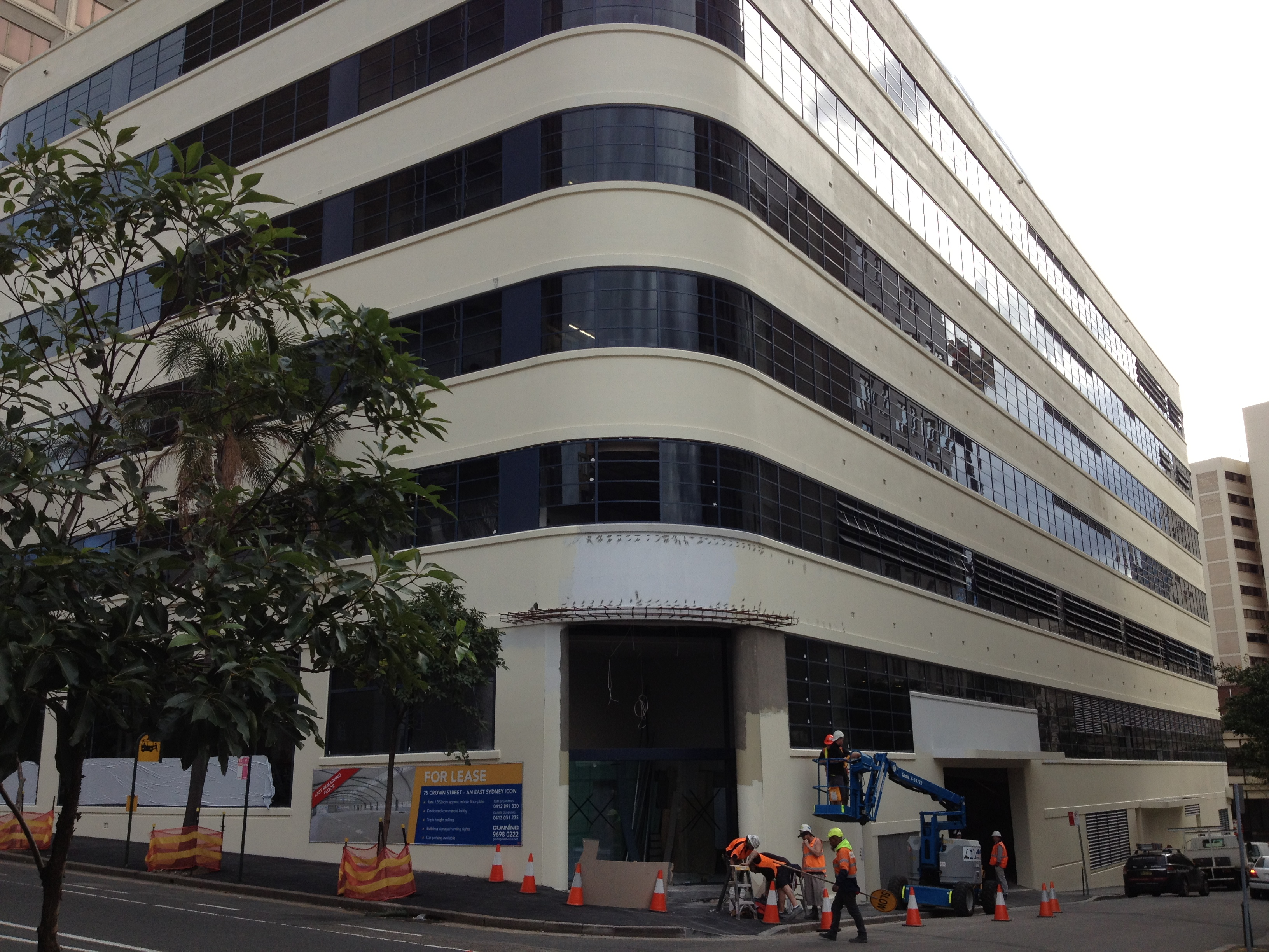 The Hastings Deering building (aka City Ford) in Crown Street, Sydney.